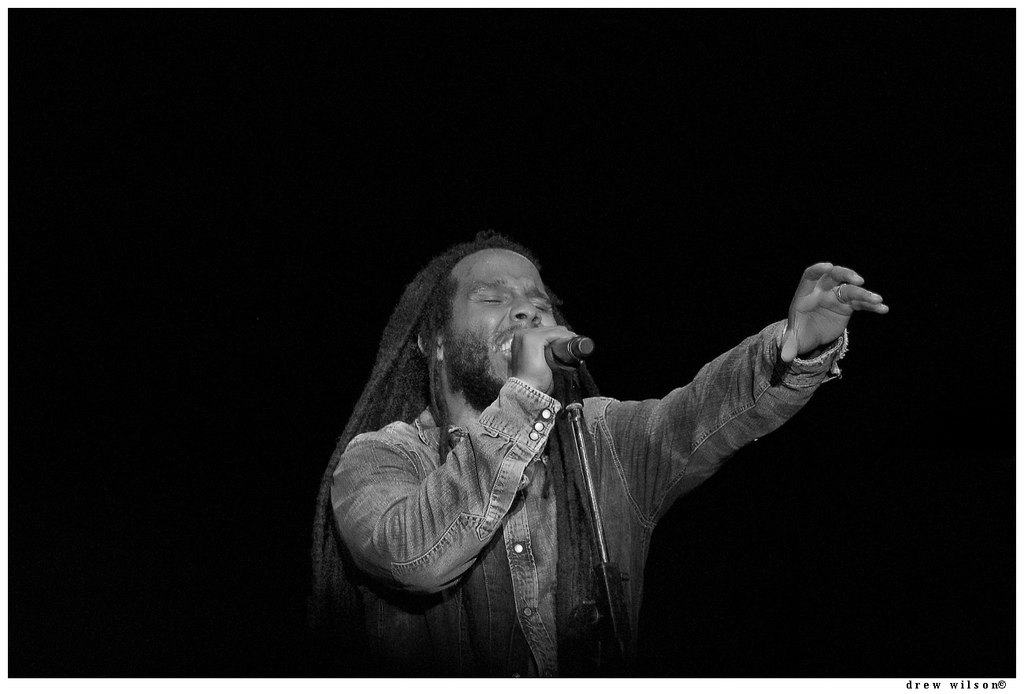 Free Ziggy Marley concert in St. Pete. Absolutely amazing. Black and white I felt was most appropriate for this series. My favorite quote he made the whole time: "Da People Should Not Fear Da Government, Da Government Should Fear Da People" Conditions were rough so give me a break. Raining, overcast during the day and very dark at night. Typical concert.